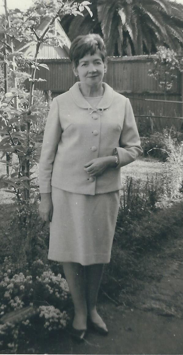 Leslie Hindle was a student of Janeta McStay's in 1967, and asked her if he might take a photo of her in the garden outside her teaching studio at Auckland University